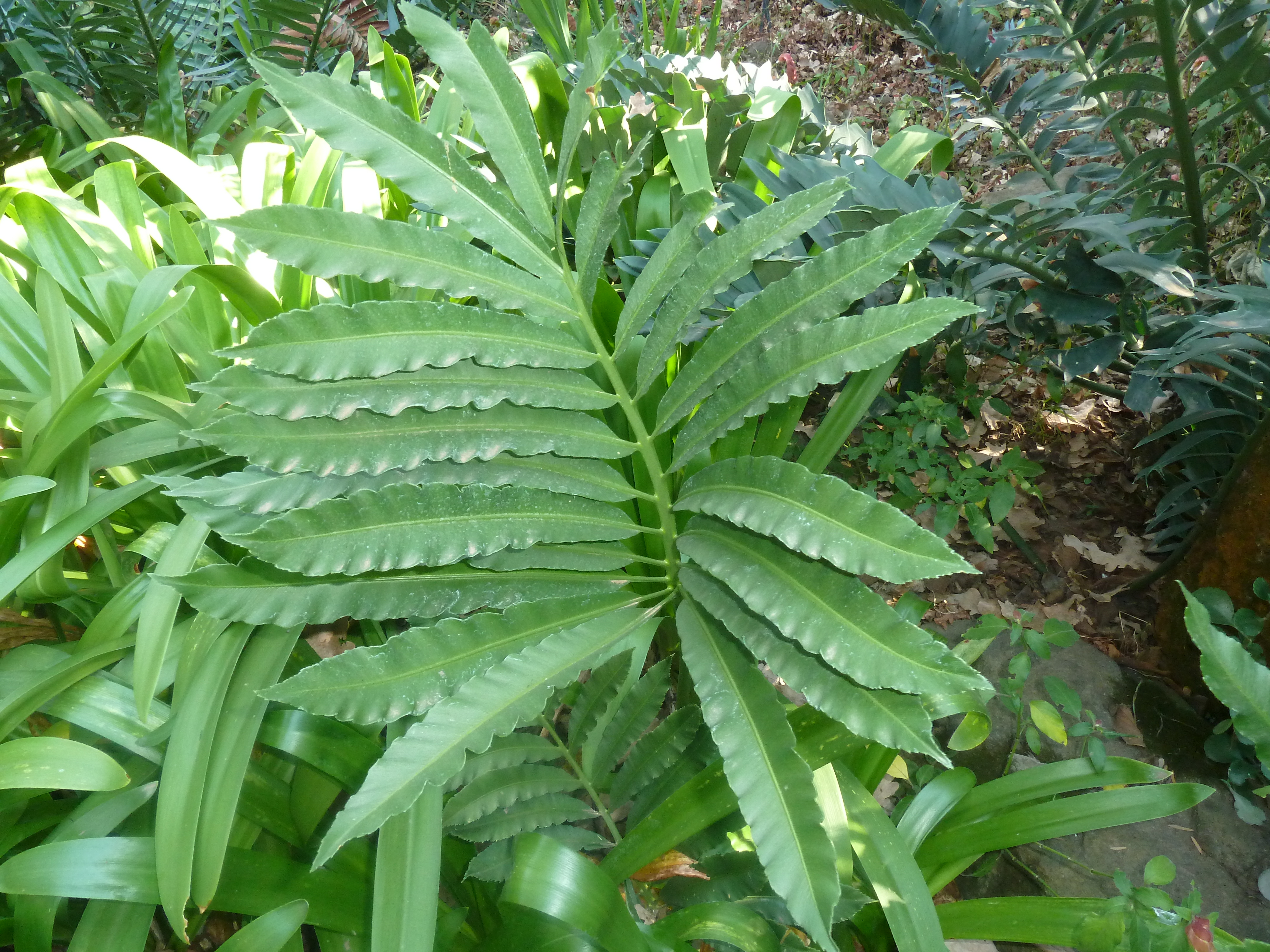 Leaves of Stangeria eriopus in the Manie van der Schijff Botanical Garden